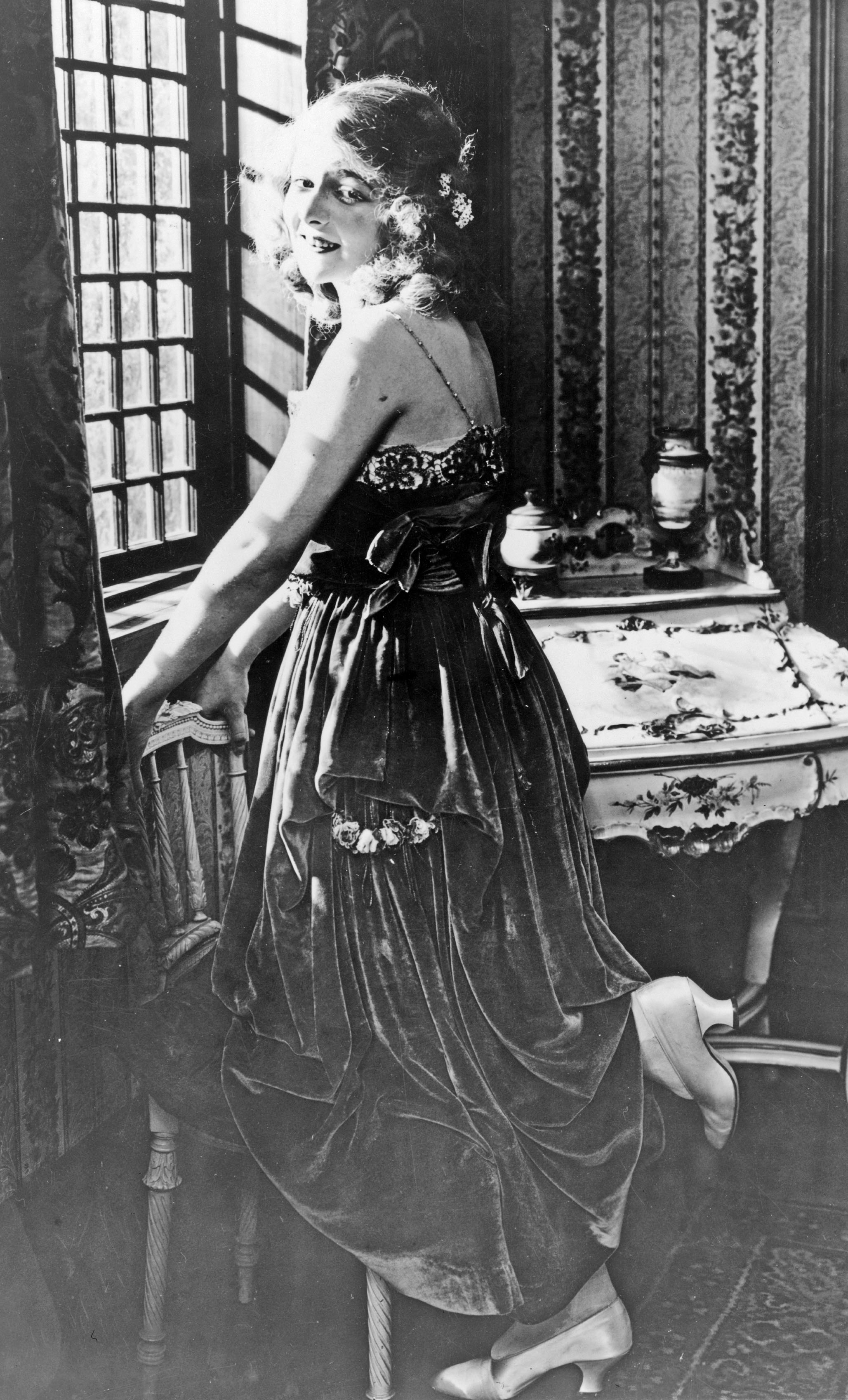 American actress Pauline Curley, in a promotional still from the 1917 film The Fall of the Romanoffs (1917) by Iliodor Pictures.